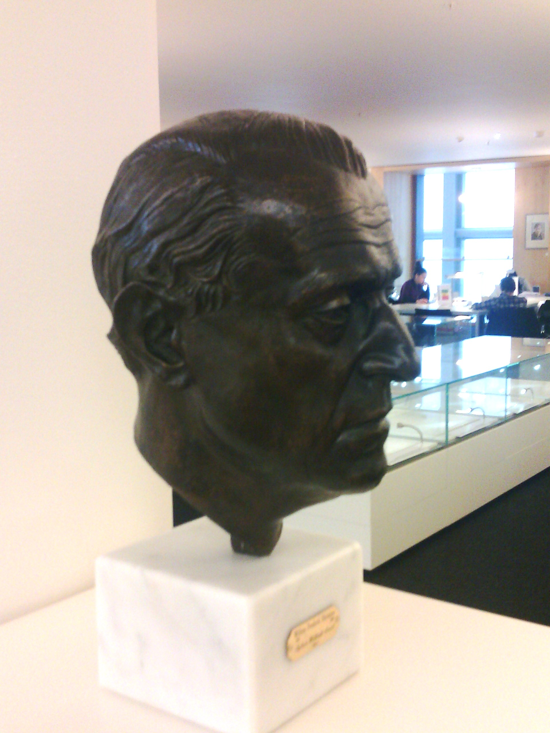 Bronze portrait W.F. Hermans, made by Sylvia Willink-Quiël. Exhibited in the Public Library Amsterdam.